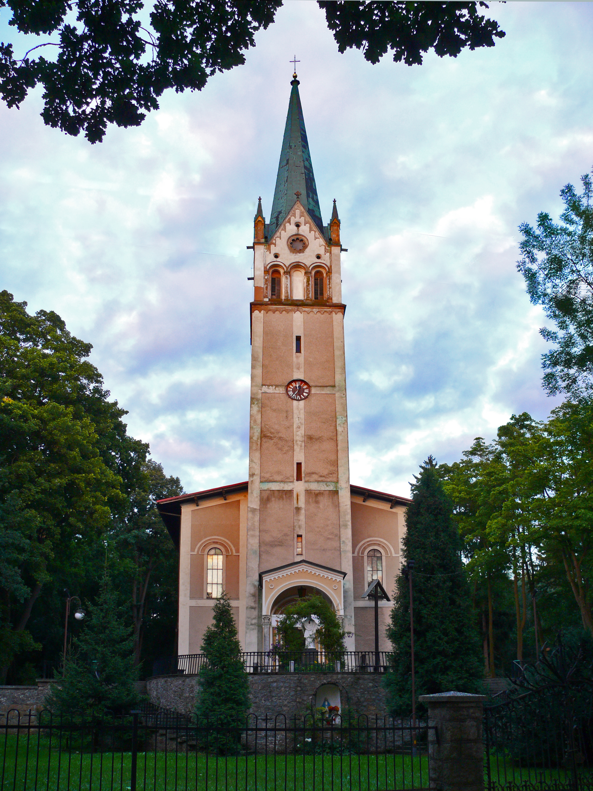 Parish church in Mysłakowice